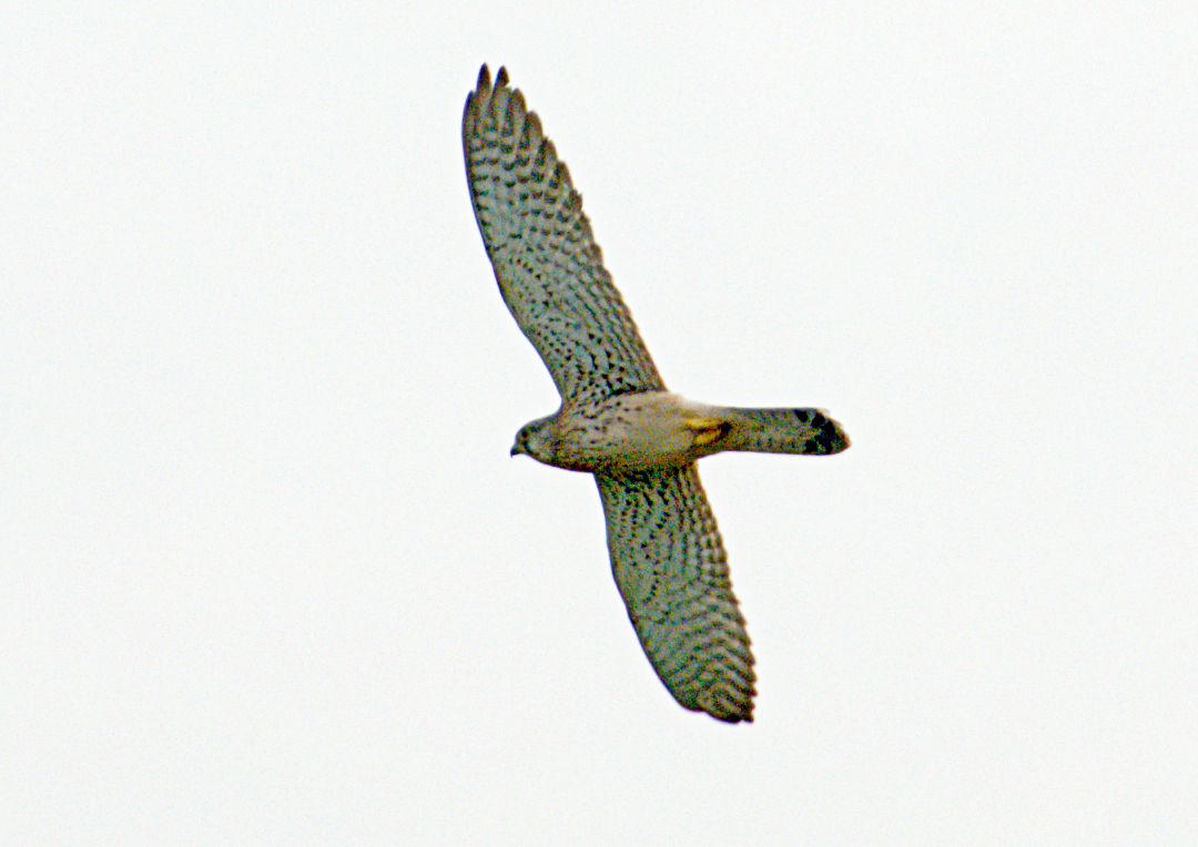 Name: Falco tinnunculus. Family: Falconidae. Location. Münster, NRW, Germany